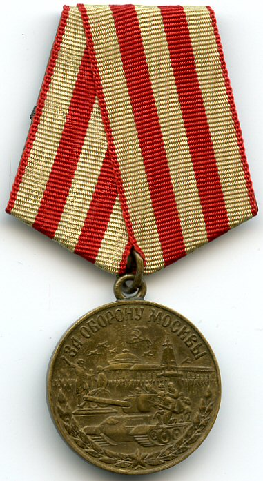 Obverse of the World War 2 Soviet campaign medal "For the Defence of Moscow" (1944)